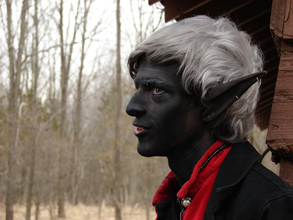 LARP : drow character